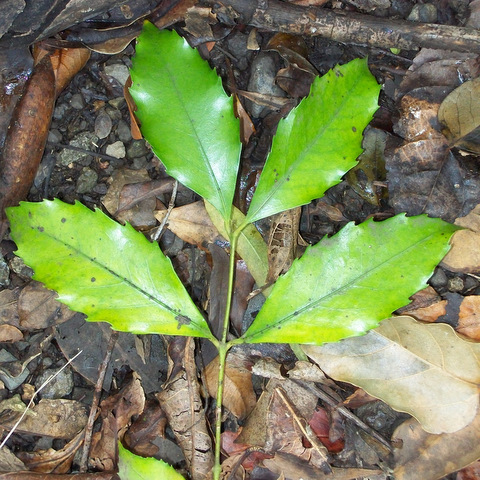 Dapnandra johnsonii leaves